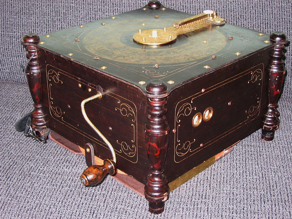 Ariston, barrel organ